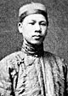 Hong Yen Chang (1860－1926)